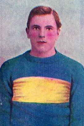 Cigarette card of Len Mortimer from the 1905 Wills Past and Present Champions series.